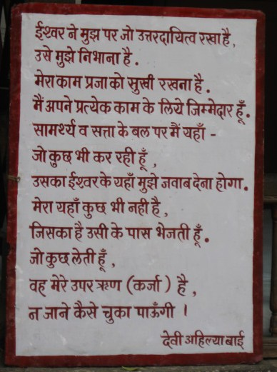 Quote of Rani Ahilyabhai